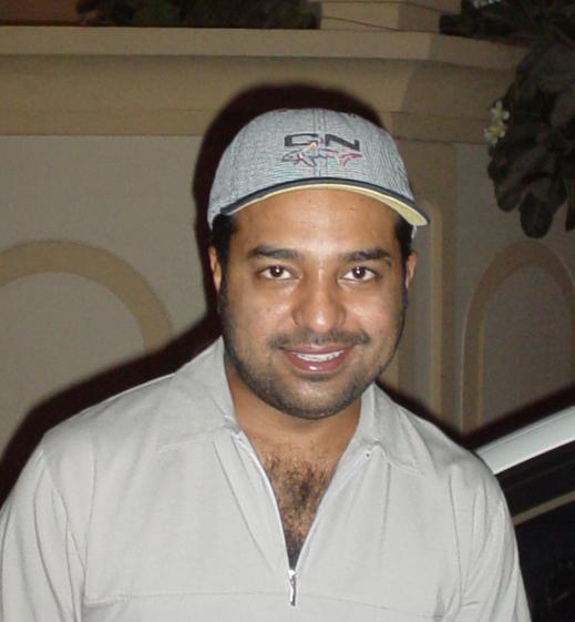 Rashed Al-Majed is a Saudi Arabian singer.